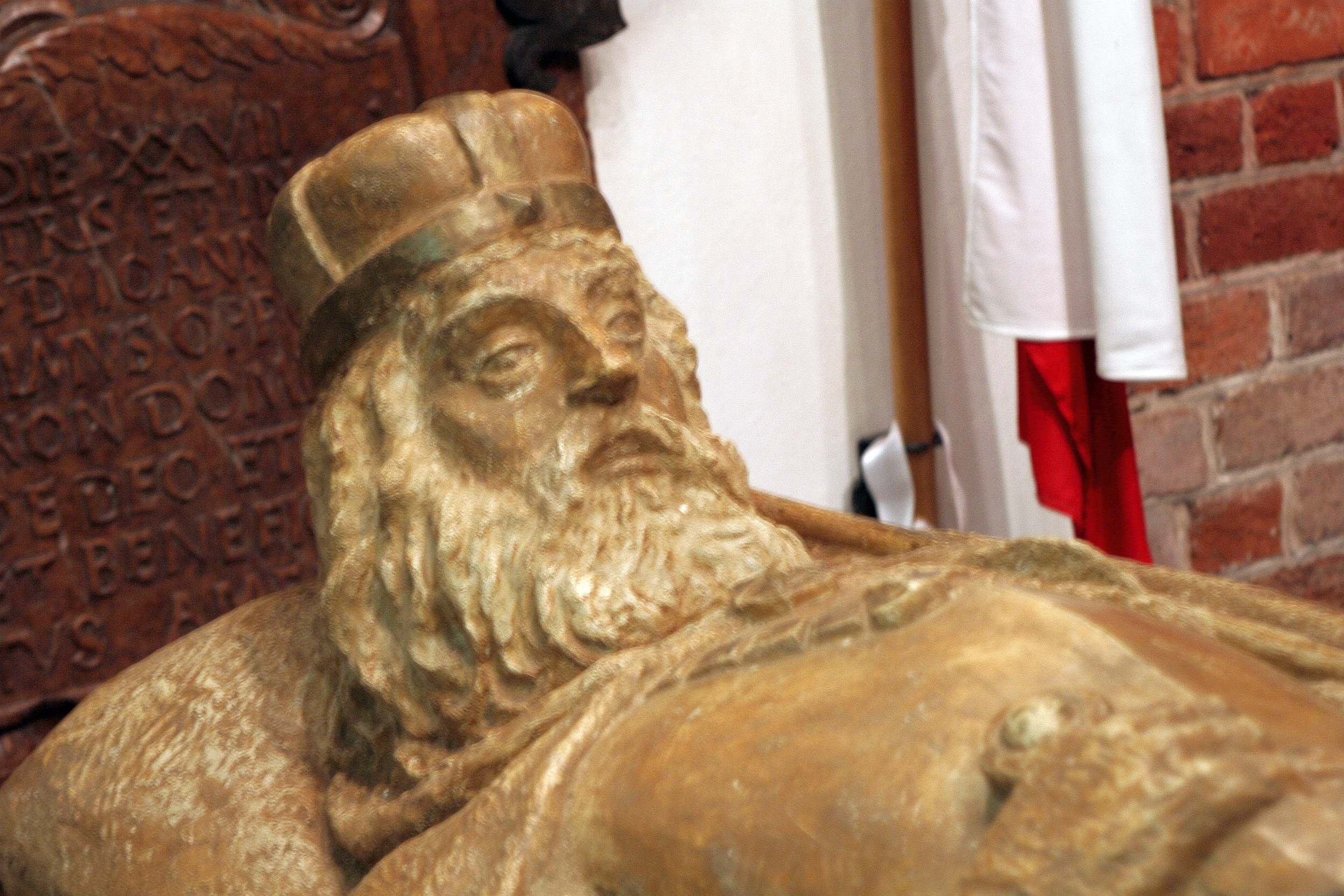 Sarkofag księcia opolskiego Jana II Dobregow Katedrze św. krzyża w Opolu.